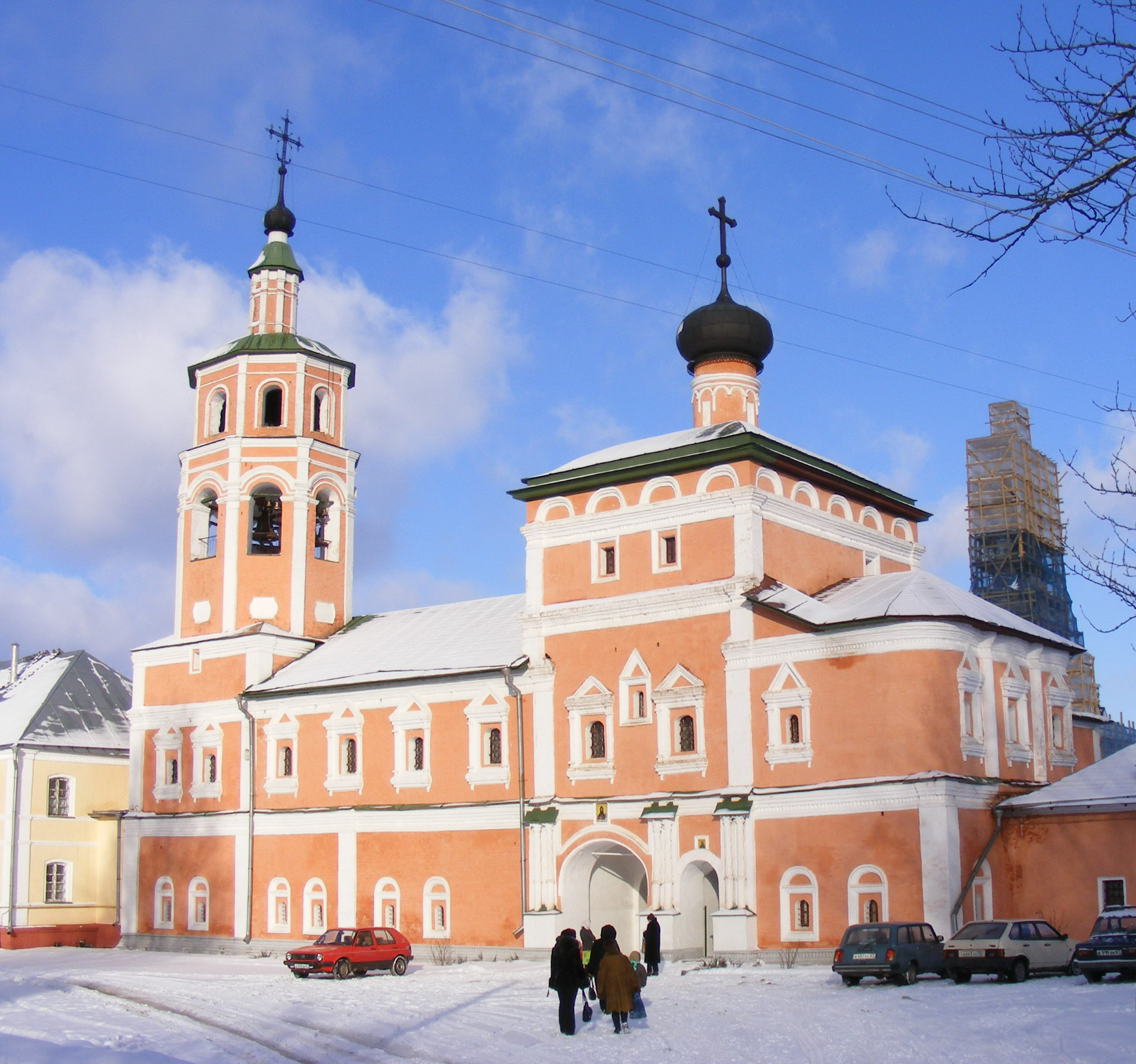 Ascension Church of the St. John the Baptist monastery in Vyazma, Russia.